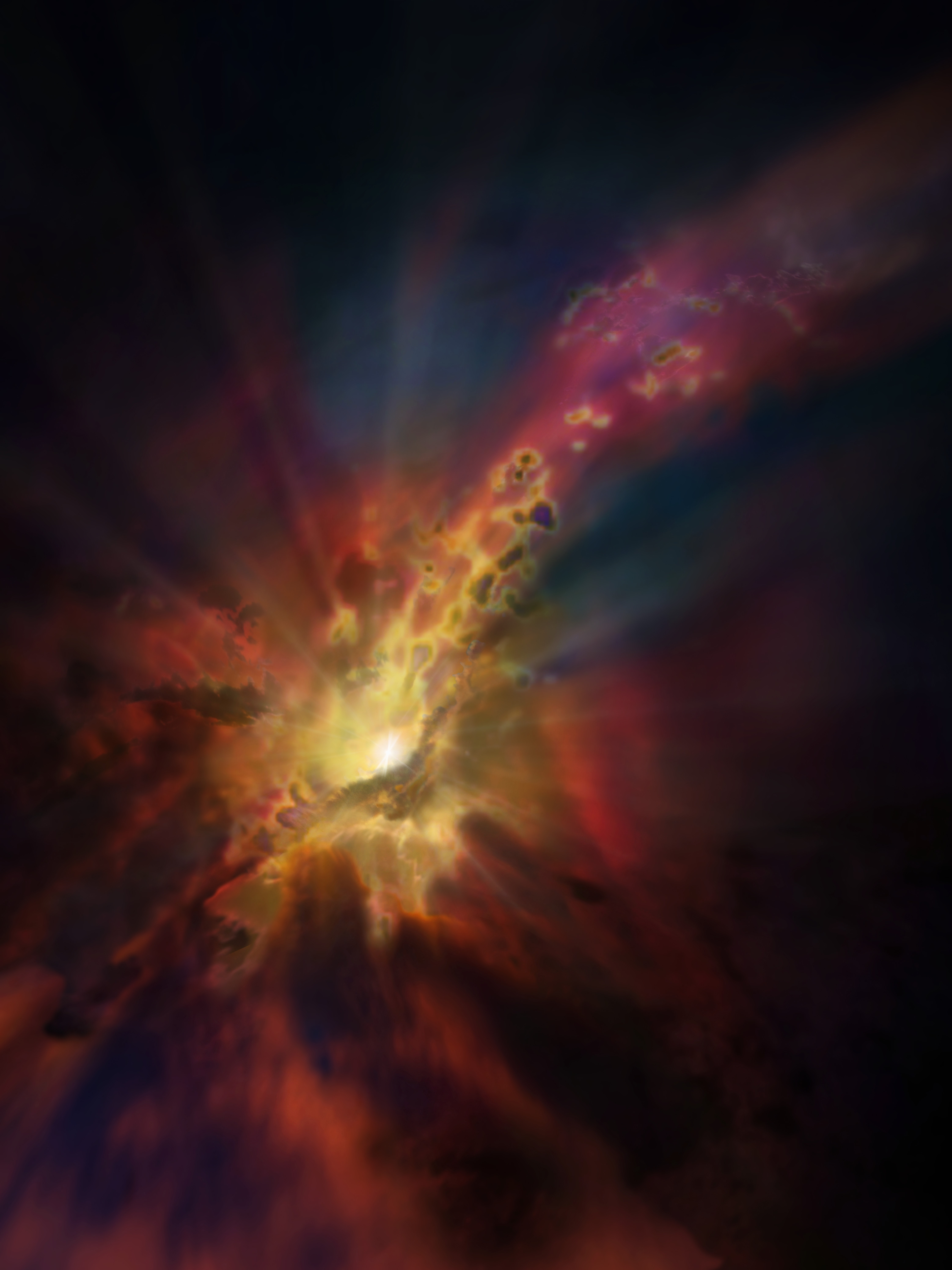 The cosmic weather report, as illustrated in this artist’s concept, calls for condensing clouds of cold molecular gas around the Abell 2597 Brightest Cluster Galaxy. The clouds condense out of the hot, ionised gas that suffuses the space between the galaxies in this cluster. New ALMA data show that these clouds are raining in on the galaxy, plunging toward the supermassive black hole at its centre.